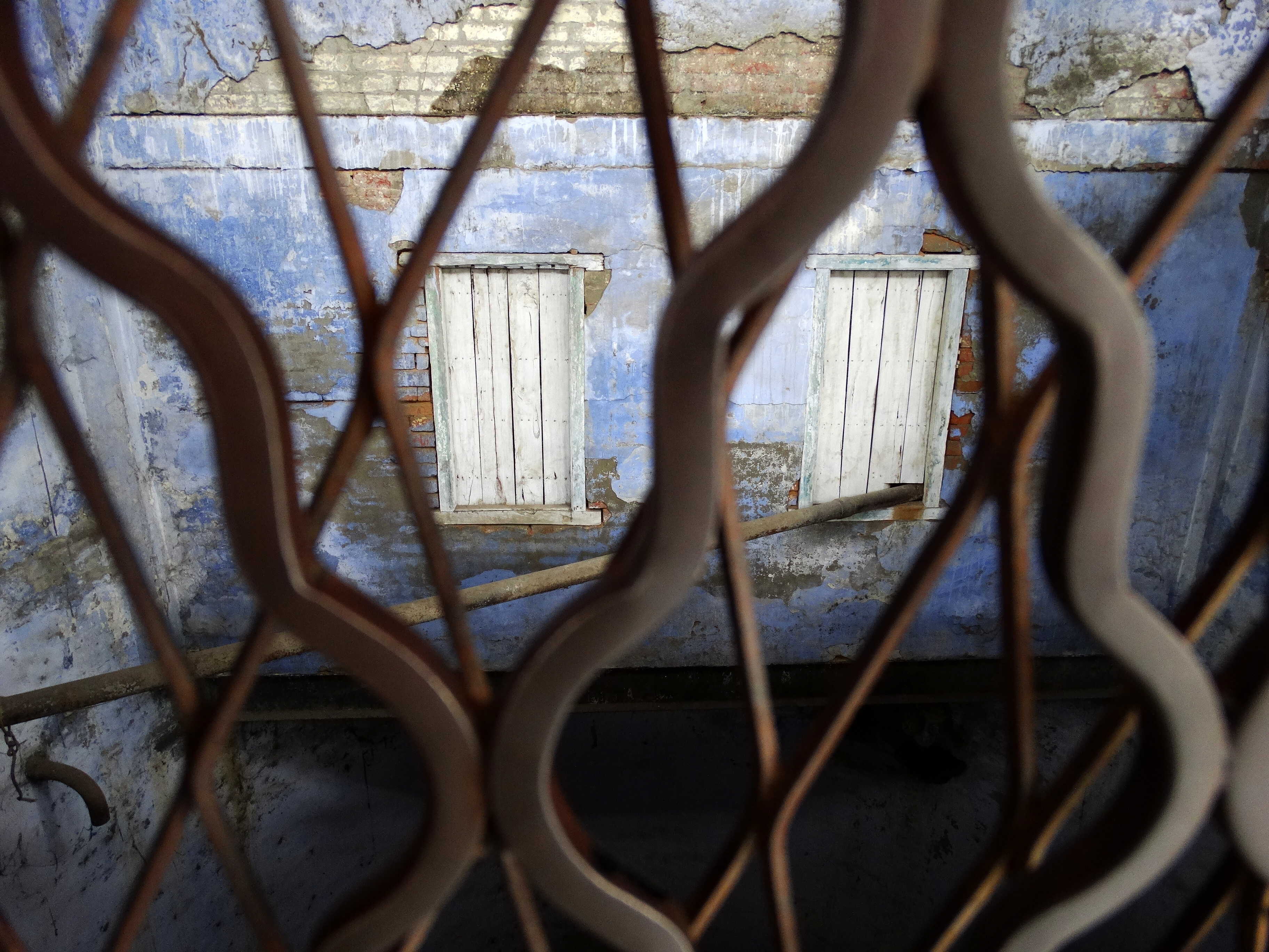 Martyrs Well - Where Victims Leapt to Escape 1919 Amritsar Massacre - Jallianwala Bagh - Amritsar - Punjab - India